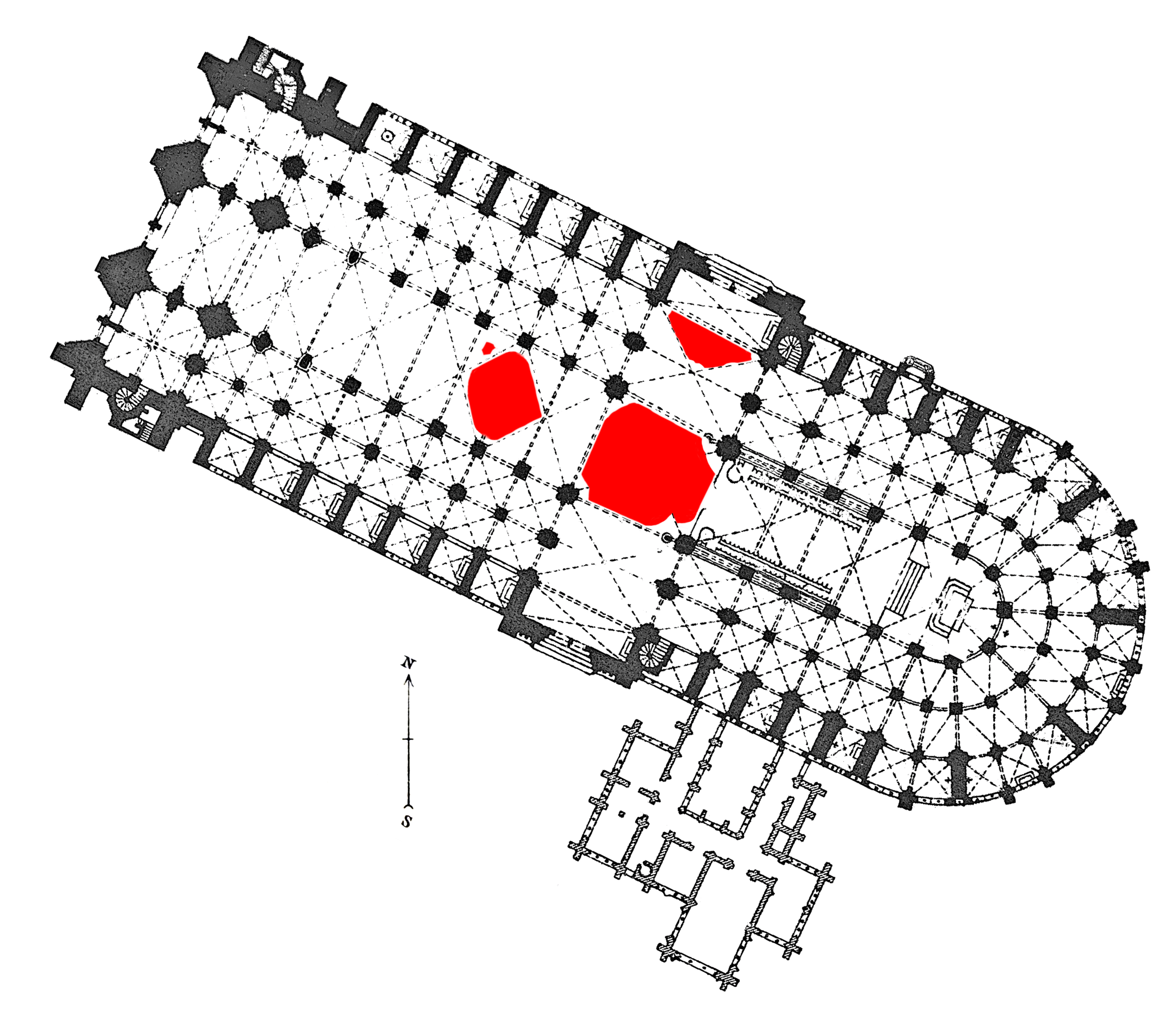 Title: Paris and environs, with routes from London to Paris : handbook for travellers Year: 1913 (1910s) Authors: Karl Baedeker (Firm) Subjects: Publisher: Leipzig, K. Baedeker